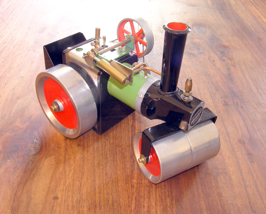 An shoot taken inside on an attractive wooden table of a mint unfired Mamod SR1 steam roller dating from c1965.